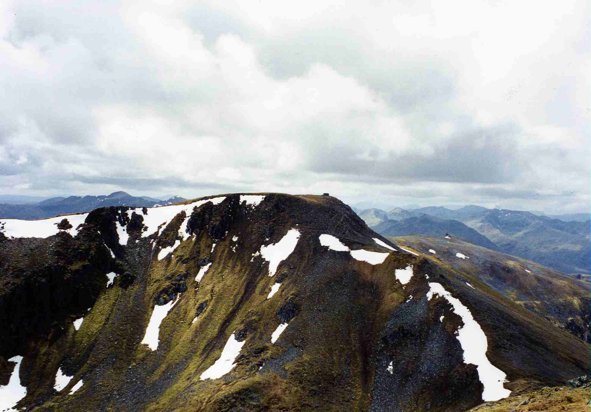 Mam Sodhail seen from Càrn Eige, 1 km to the NE.